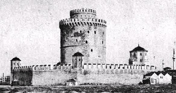 Photograph of the White Tower of Thessaloniki in 1912, showing the now-demolished outer fortifications.